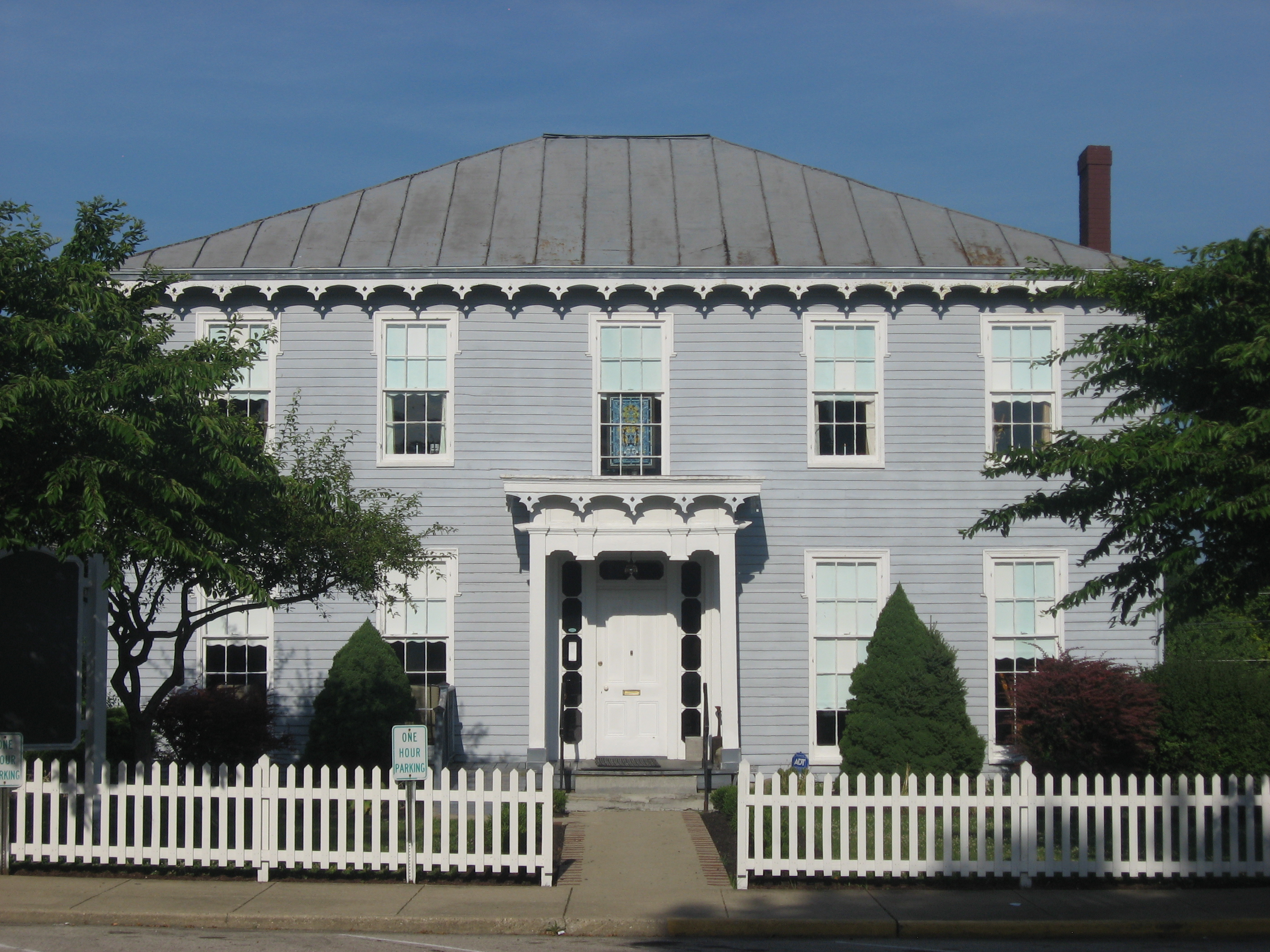 Front of the Fernando G. Taylor House, located on the northeastern corner of Main and Tyson Streets in Versailles, Indiana, United States. Built in 1860, it is listed on the National Register of Historic Places, and it is part of the locally-designated Versailles Courthouse Historic District.